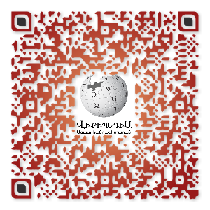 QR code. Text in Armenian: Welcome to Wikipedia, the free encyclopedia that anyone can edit.